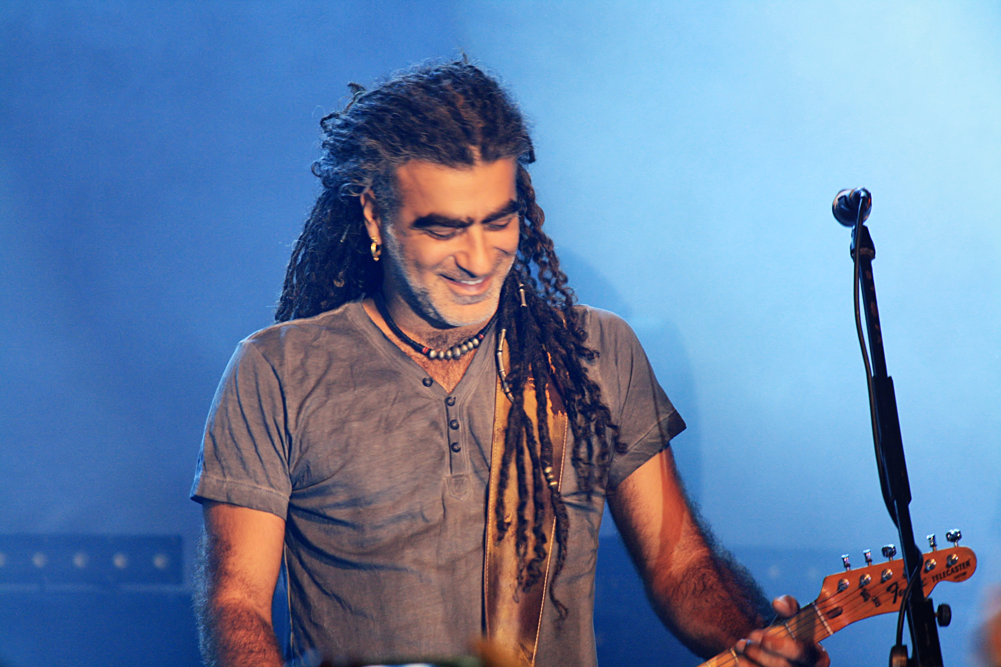 Mosh Ben-Ari.